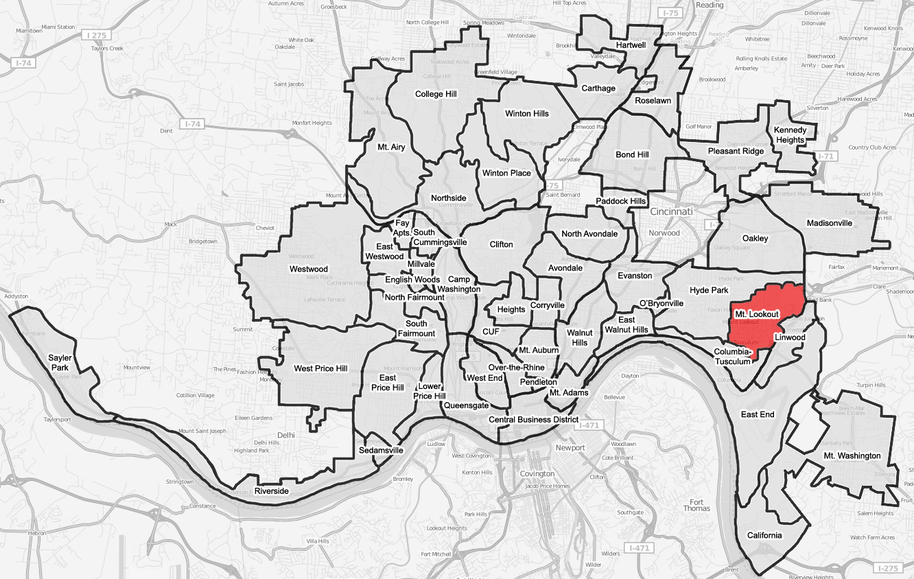 A map of the neighborhood of Mount Lookout within Cincinnati, Ohio. Neighborhood lines are based on information from This street map is derived from a free map.